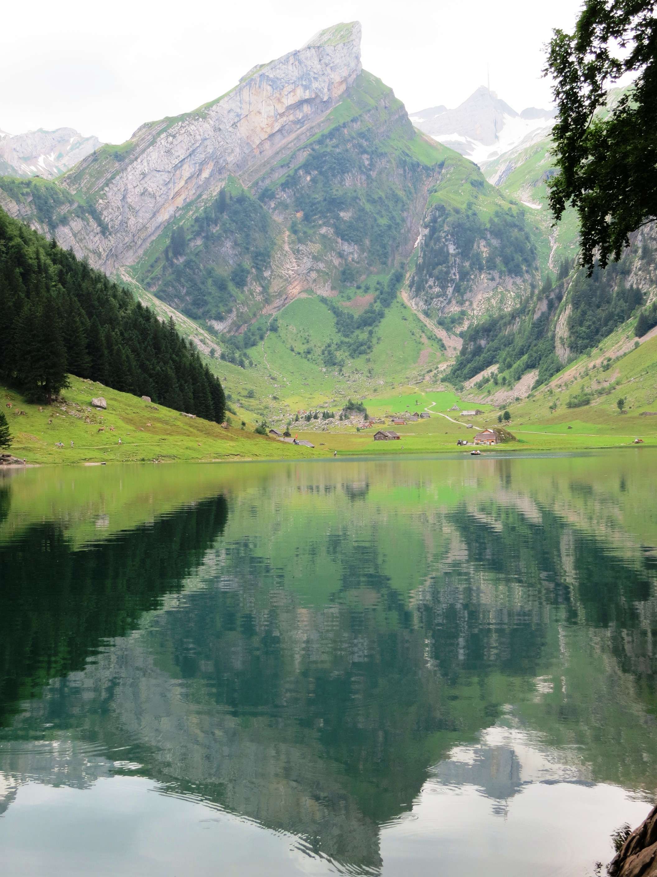 Seealpsee, Wasserauen, Schwende AI, Schweiz